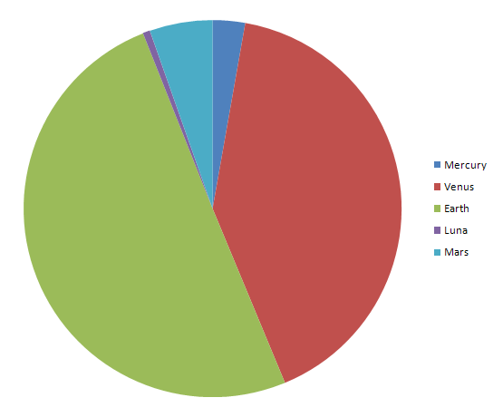 Relative masses of the terrestrial planets, including the Moon